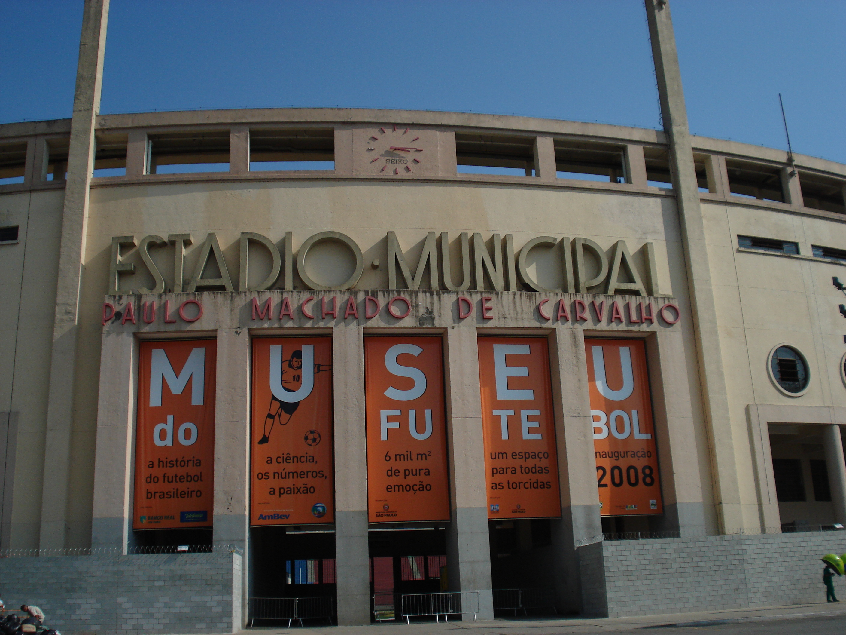 Main entrance to Estádio Municipal Paulo Machado de Carvalho, also knwon as Estádio do Pacaembu, in São Paulo, São Paulo, Brazil.